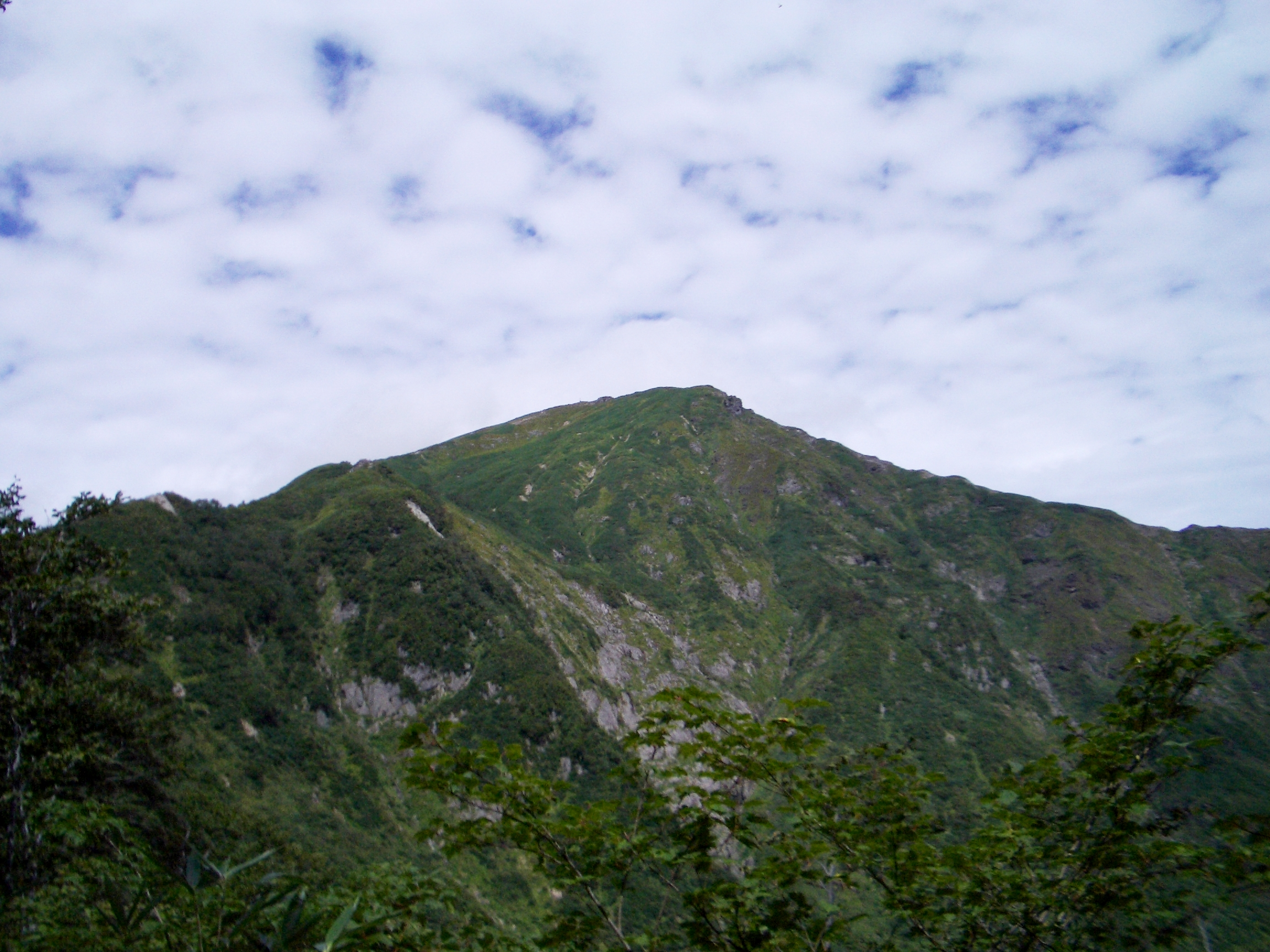 Mount Tanigawa as seen from the southeast. The summit is not shown in this picture. Shot on the Tenjin Ridge. This coordinate is a guide.